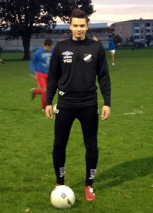 At training ground in Sweden